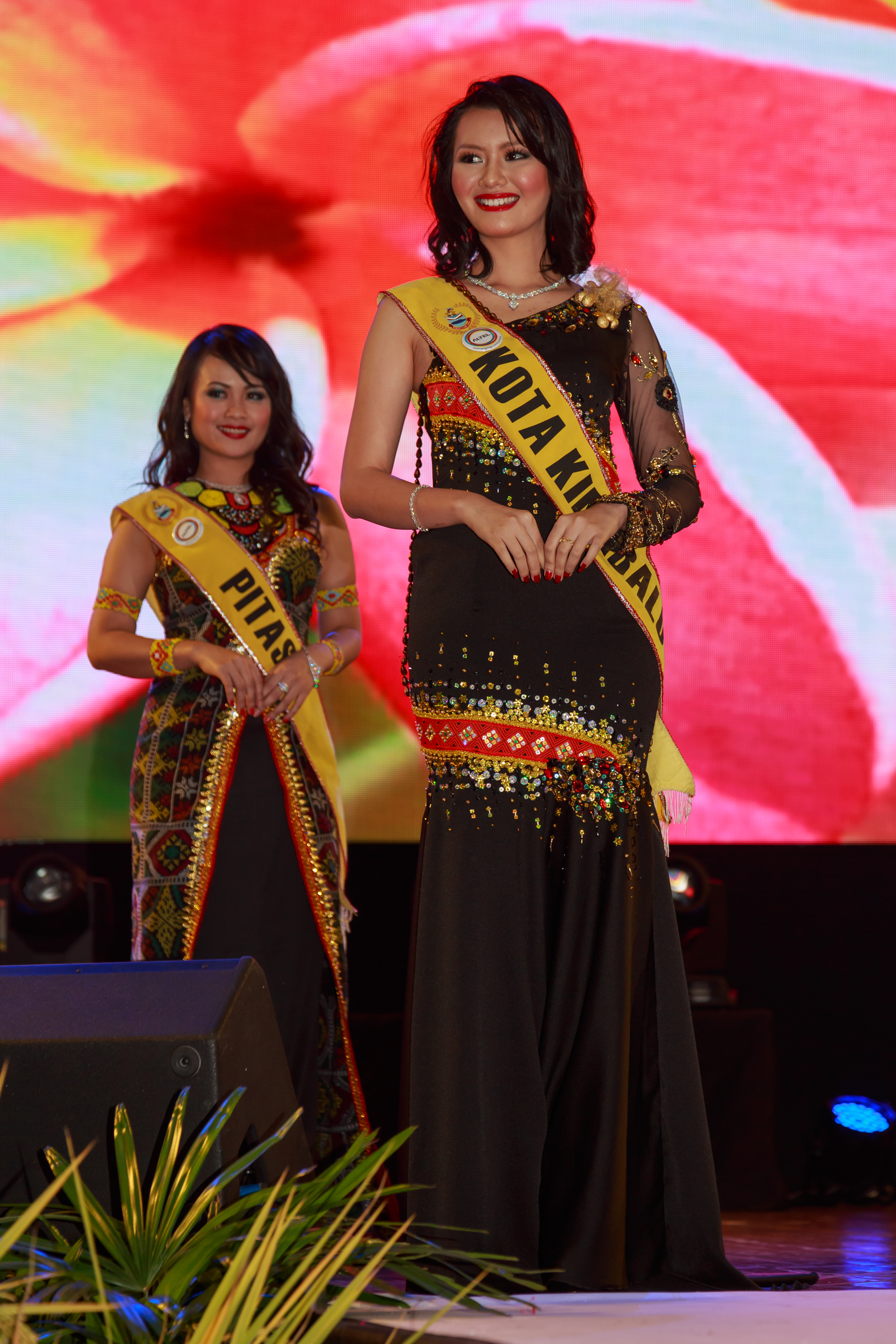 Penampang, Sabah: Presentation of the contestants for Unduk Ngadau 2014 on May 29 in the KDCA Unity Hall. Photo showing the candidate for Kota Kinabalu.